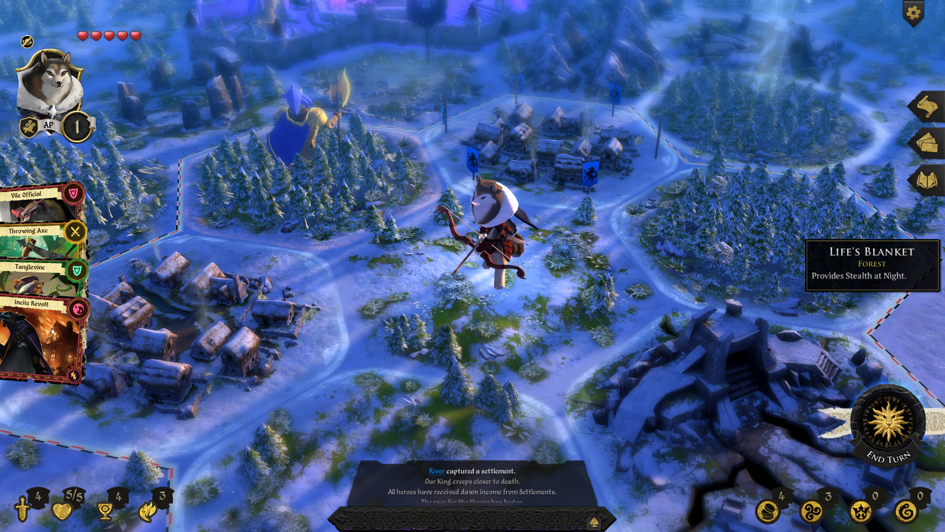 Armello screenshot. Released in 2015, the game was developed by League of Geeks and is powered by Unity.